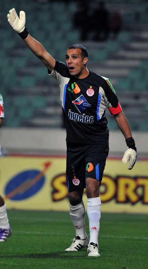 Moroccan football goalkeeper Nadir Lamyaghri